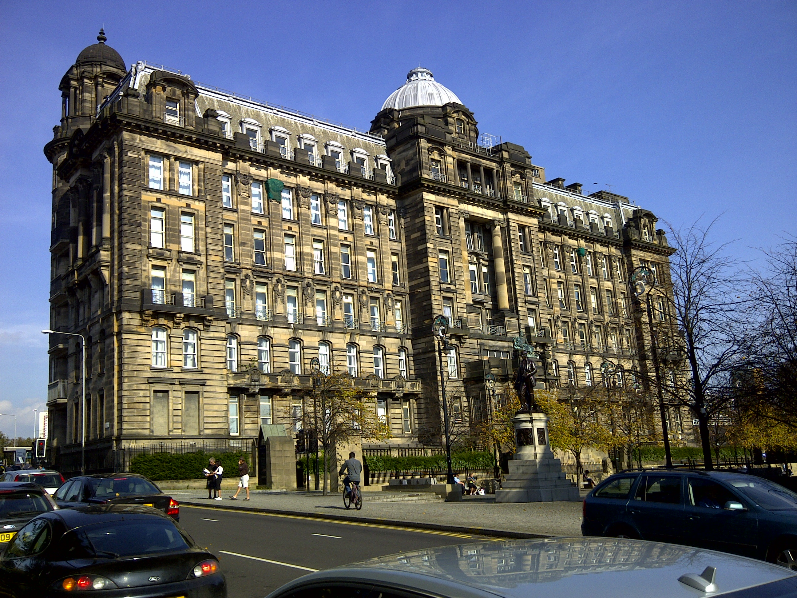 The Medical Block of the Glasgow Royal Infirmary as seen, looking northwards, on High Street.